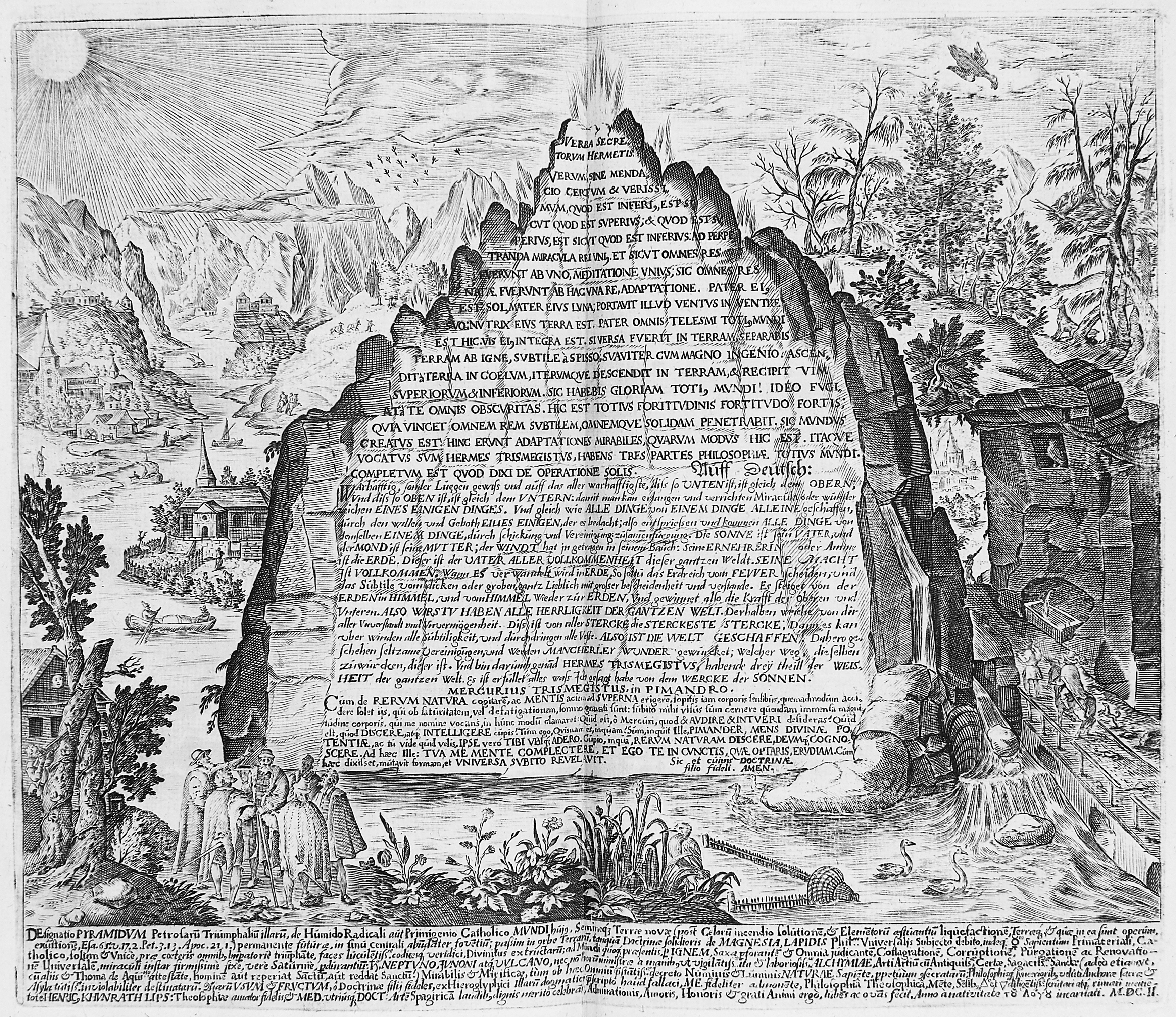 'The Emerald Table of Hermes'. Rare Books Keywords: Alchemy